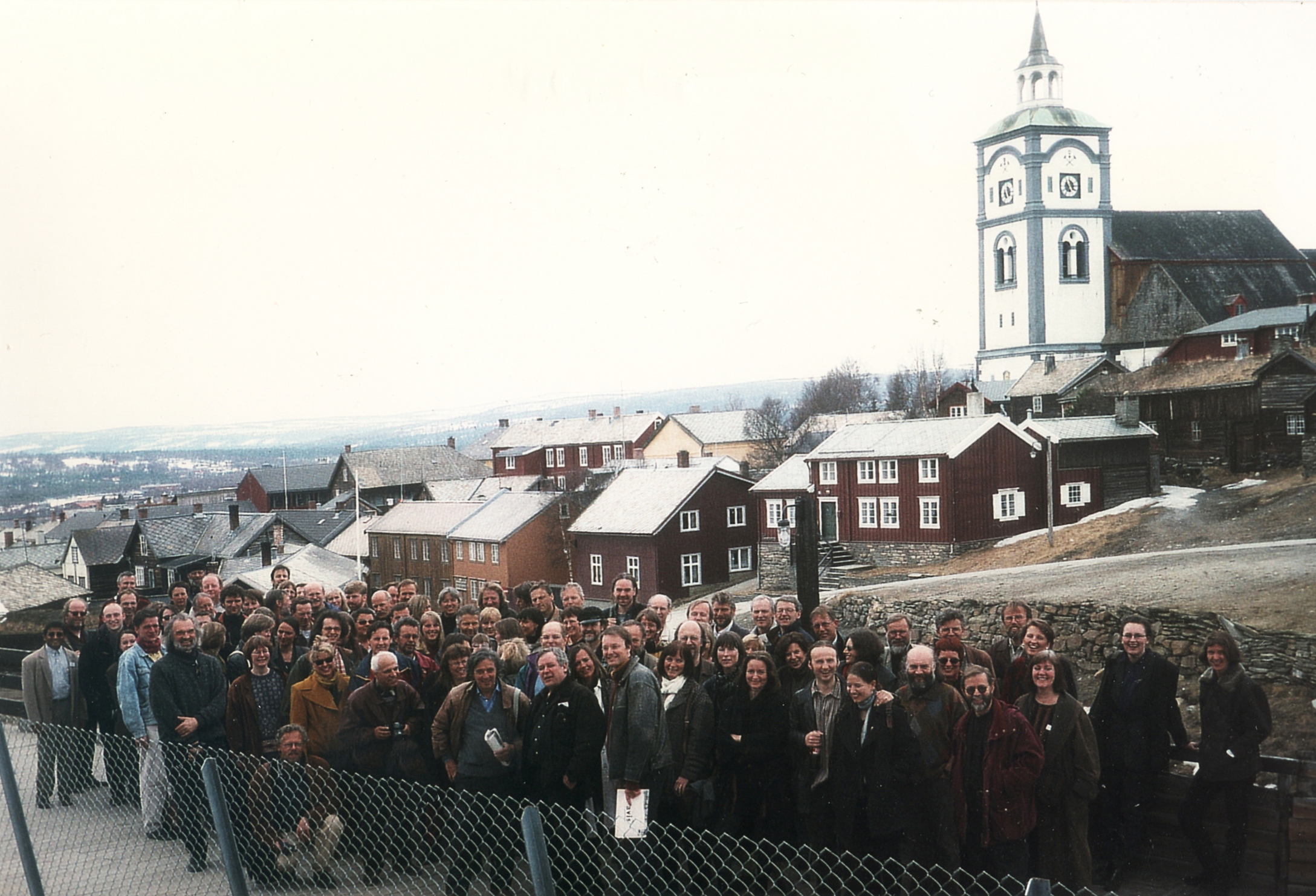 The participants at the seminar "TAF International Celebration of Architecture", Røros, Norway in 1996